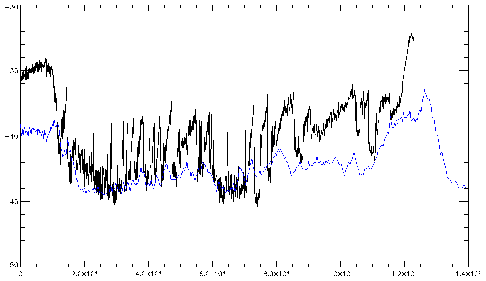 delta-O-18 from the NGRIP (black) and EPICA (blue) ice cores. delta-O-18 is a temperature proxy. Higher values are warmer. The left hand side shows the current interglacial. The right hand side is the previous Eemian interglacial which is incomplete in the NGRIP data. During the glacial period the NGRIP core shows clear signs of Dansgaard-Oeschger events which are muted in the EPICA core. By William M. Connolley. Data NGRIP data is from which is the same as the supplementary Data to NGRIP Members, Nature 431, 147 - 151 (09 September 2004); THe timescale is the ss09sea timescale in years BP 2000.